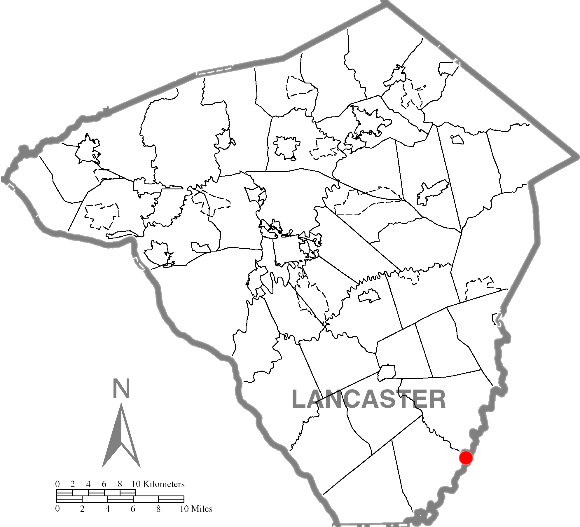 Lancaster County dot map of the Pine Grove Covered Bridge.